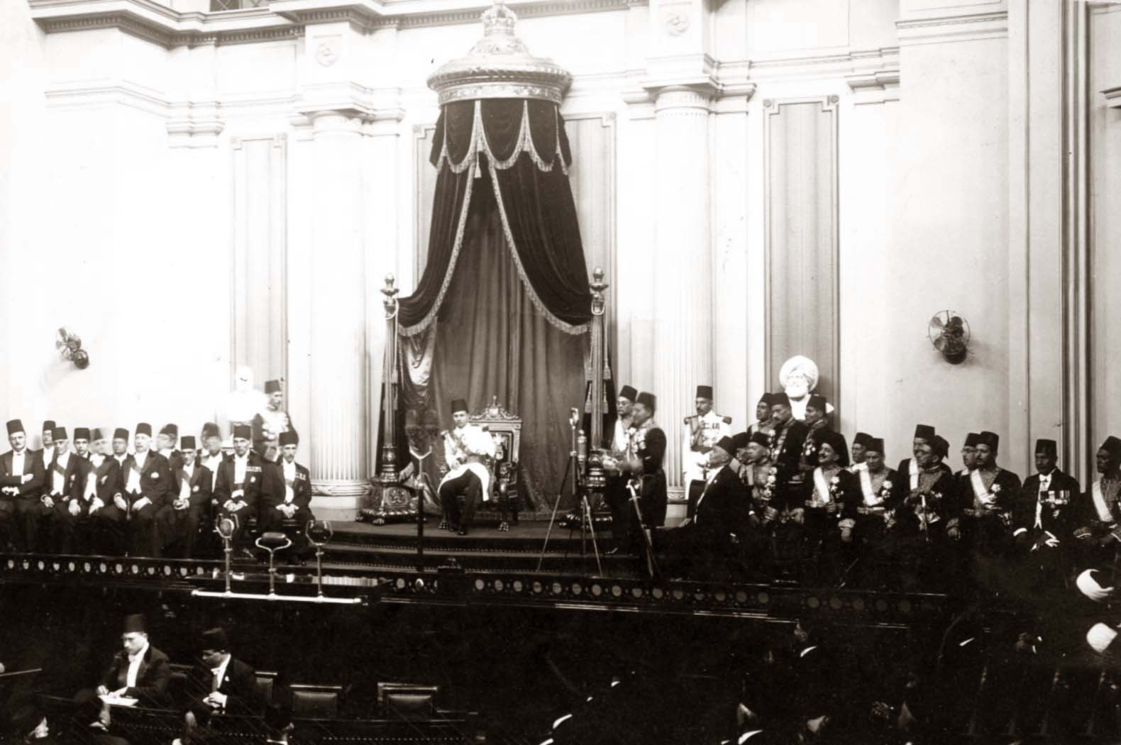 King Farouk I of Egypt sitting on the throne in the Egyptian Parliament.